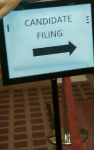 A "candidate filing" sign in Minneapolis City Hall during the filing persiod of the 2013 Minneapolis mayoral election.